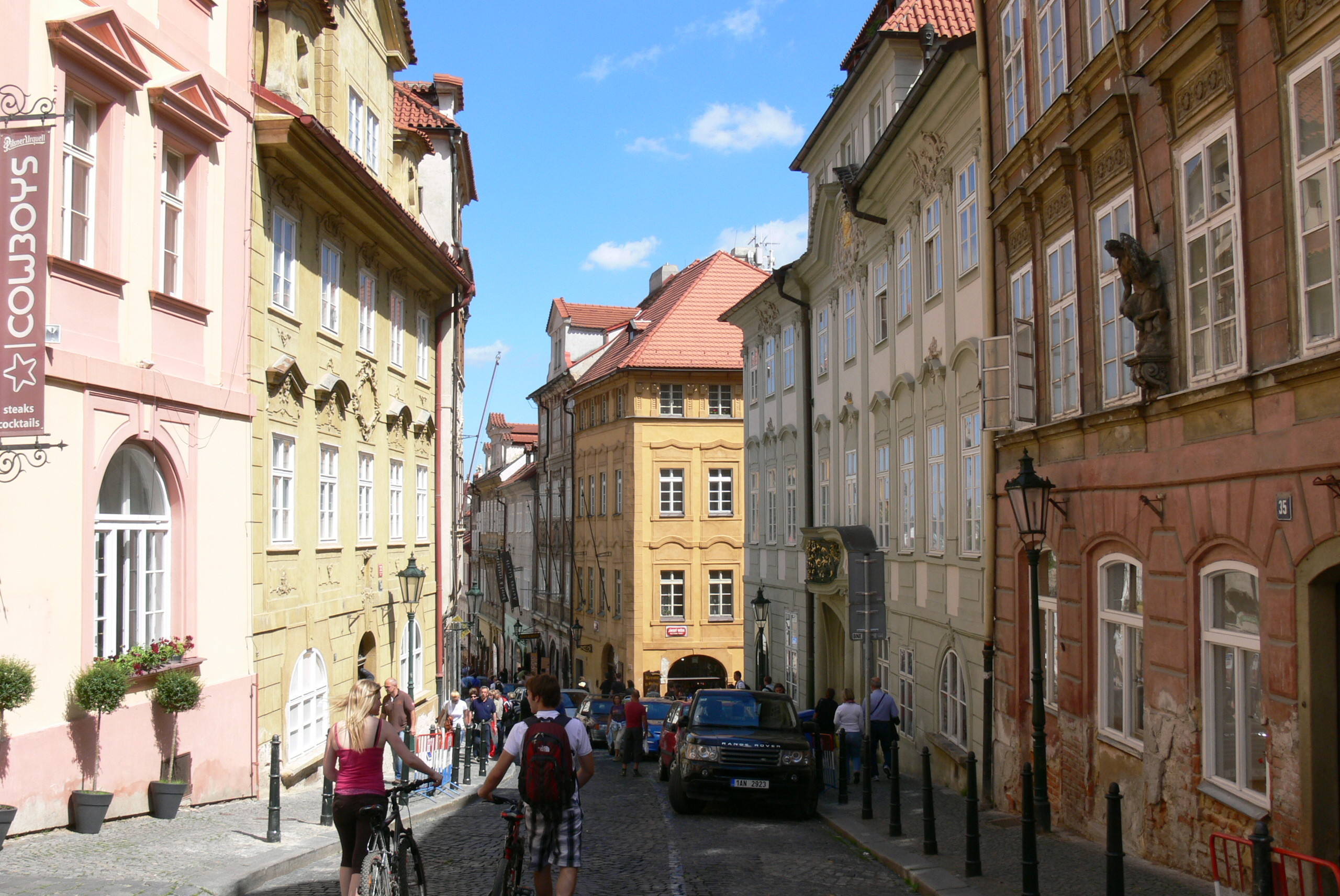 Mala Strana ( Prague ). Neruda lane.